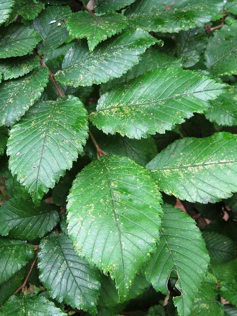 Photo of the foliage of American Elm cultivar 'Beebe's Weeping', Brighton, England